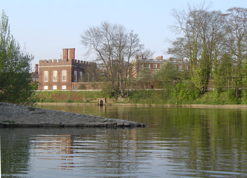 River Mole joins the Thames